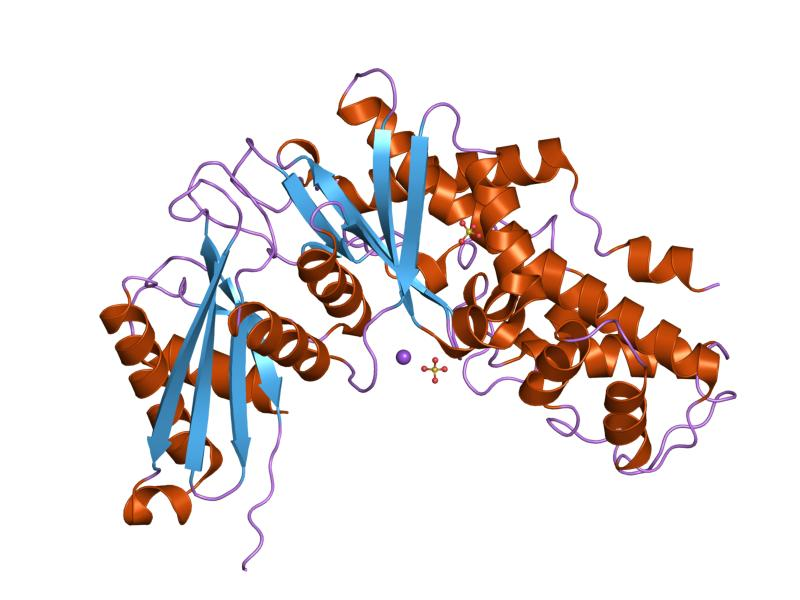 Cartoon representation of the molecular structure of protein registered with 1v4t code.